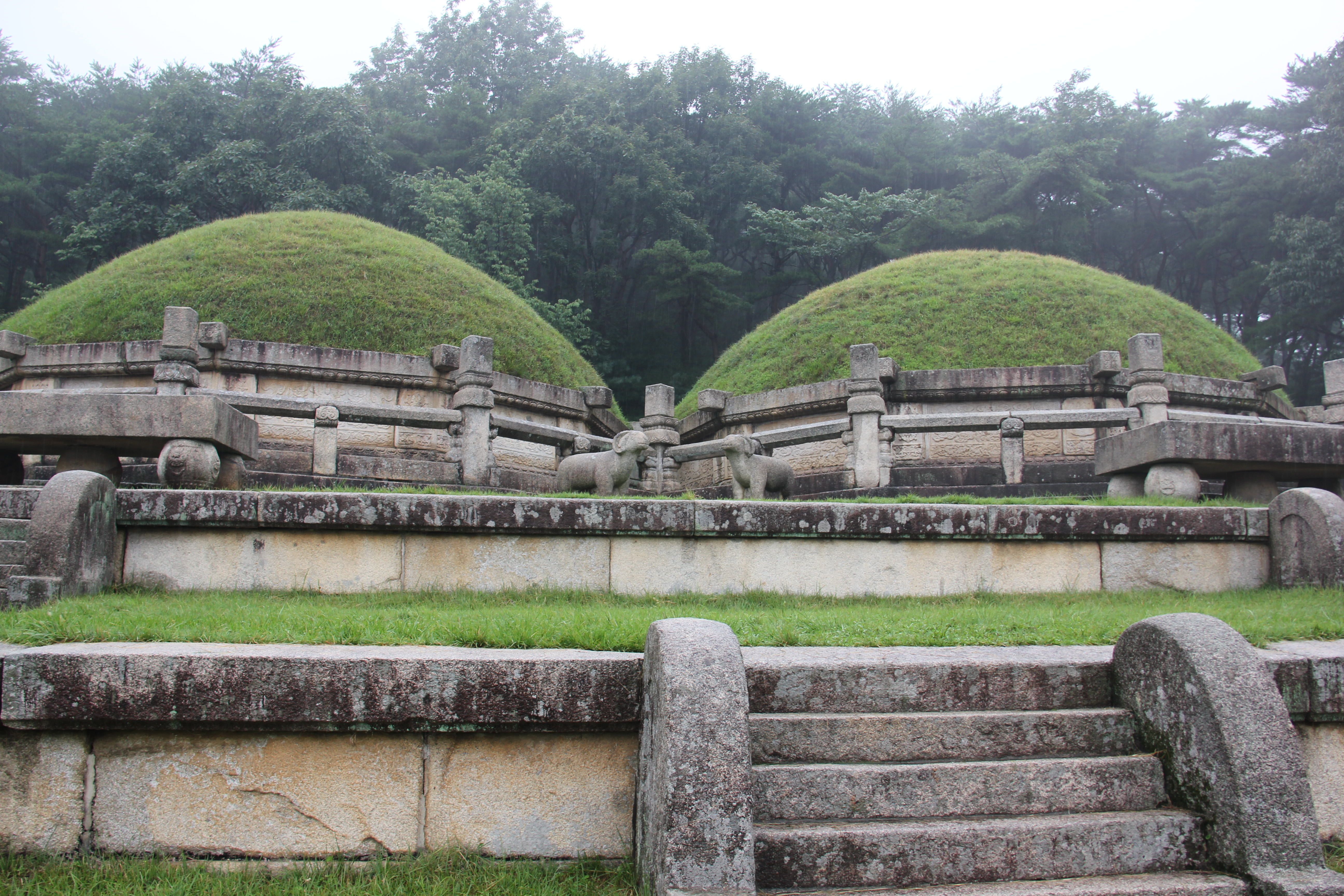 Tomb of King Kongmin